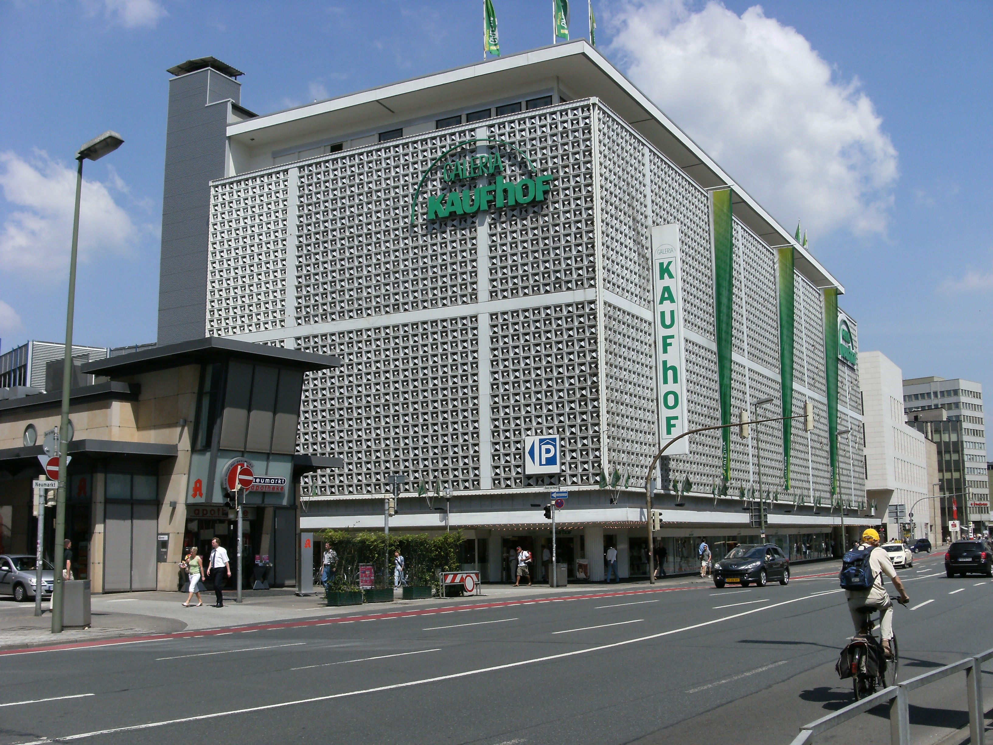 Kaufhof department store in Osnabrück, Germany.